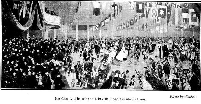 Ice Carnival in Rideau Rink in Lord Stanley, [of Preston, 16th Earl of Derby]'s time 1888–1893 as the governor general of Canada]